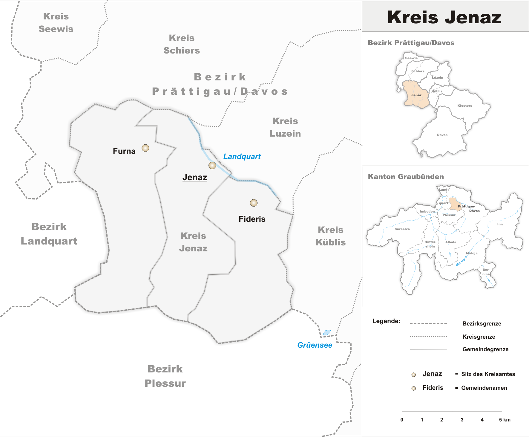 Municipalities in the circle of Jenaz